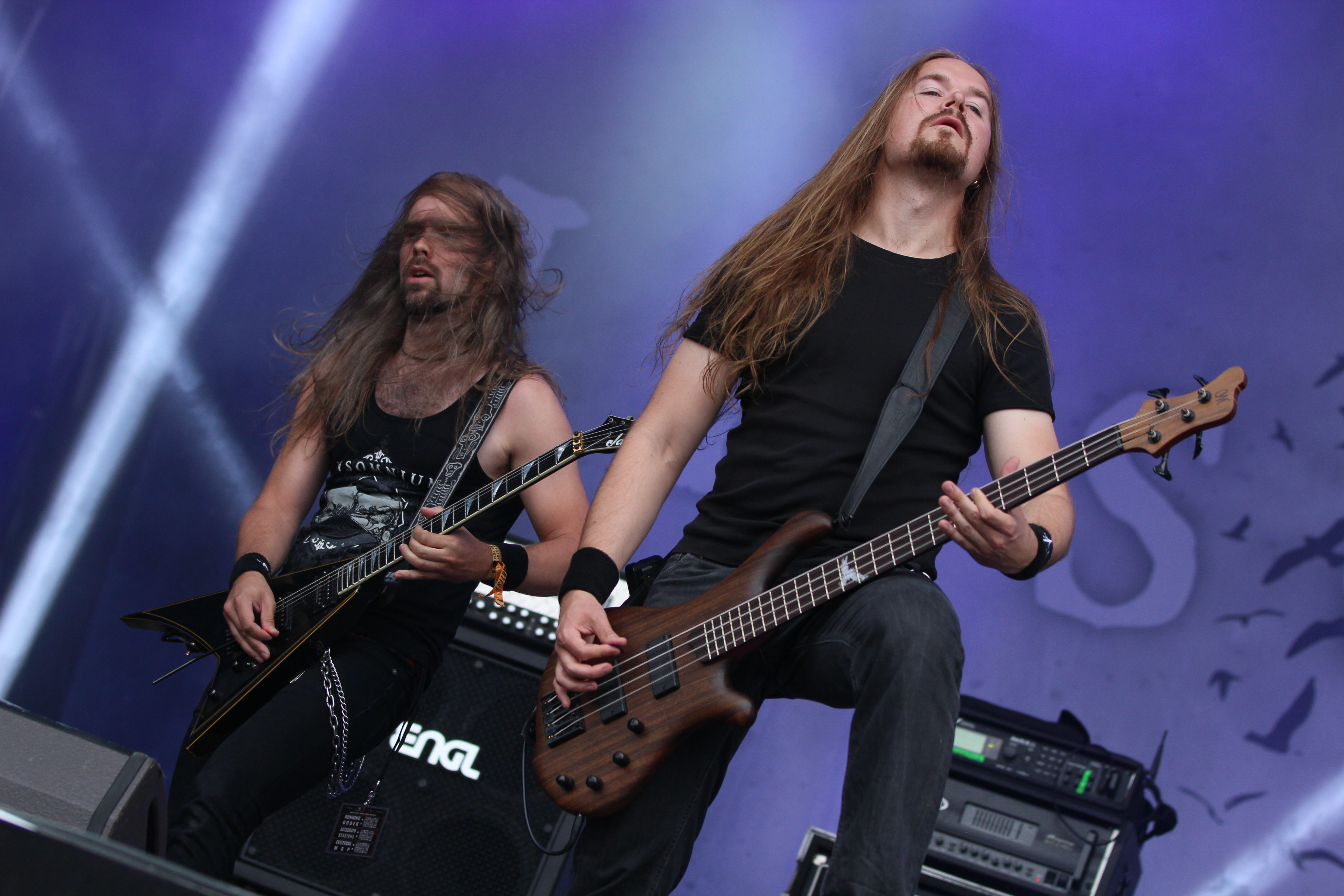 The Finish melodic death metal band Insomnium at the Rockharz Open Air 2014 in Ballenstedt/Germany